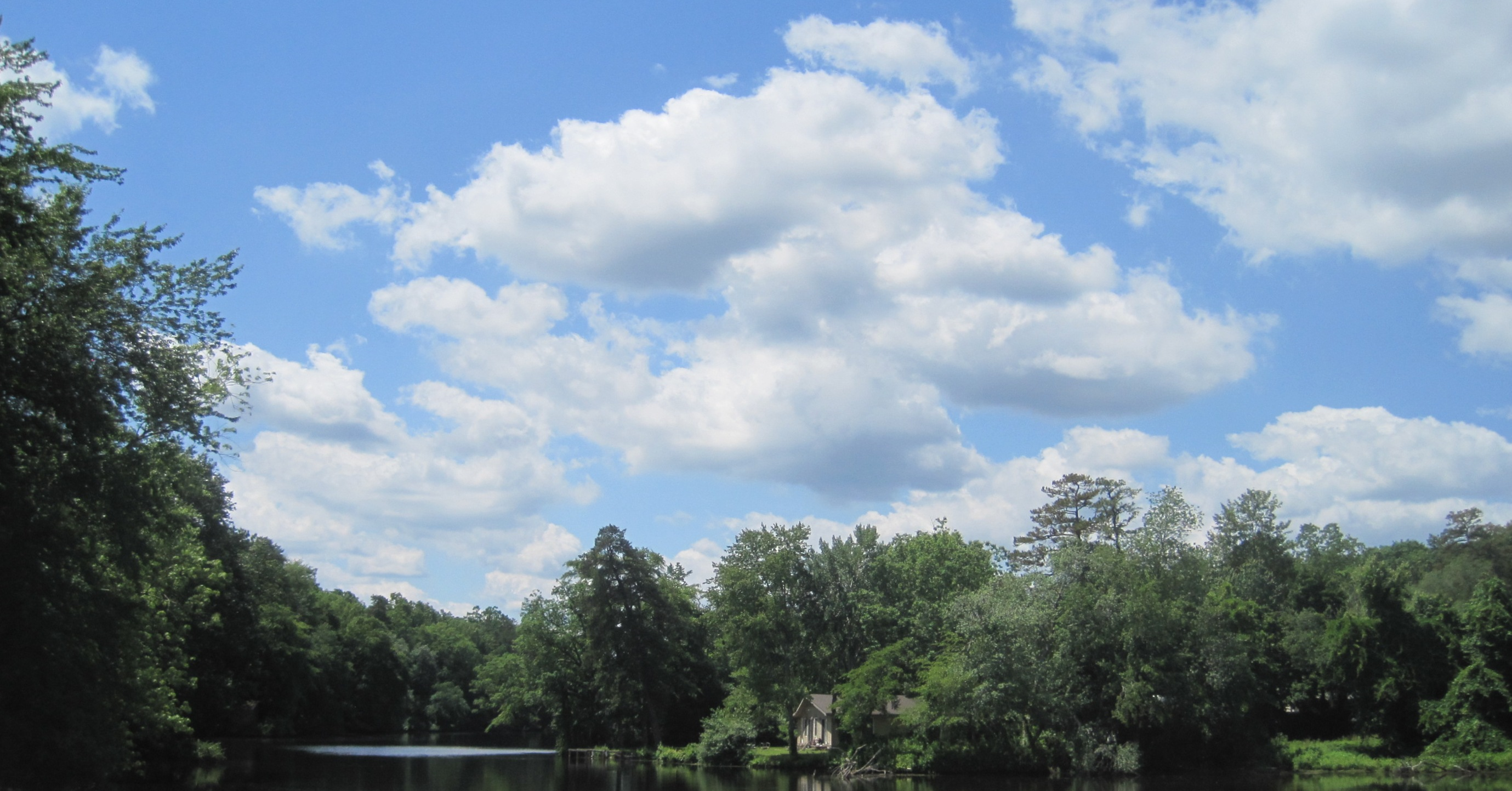 Photo of the unincorporated community of Browns Mills, New Jersey within Pemberton Township. Photo taken on Bayberry Street (County Route 667) looking south onto Big Pine Lake.